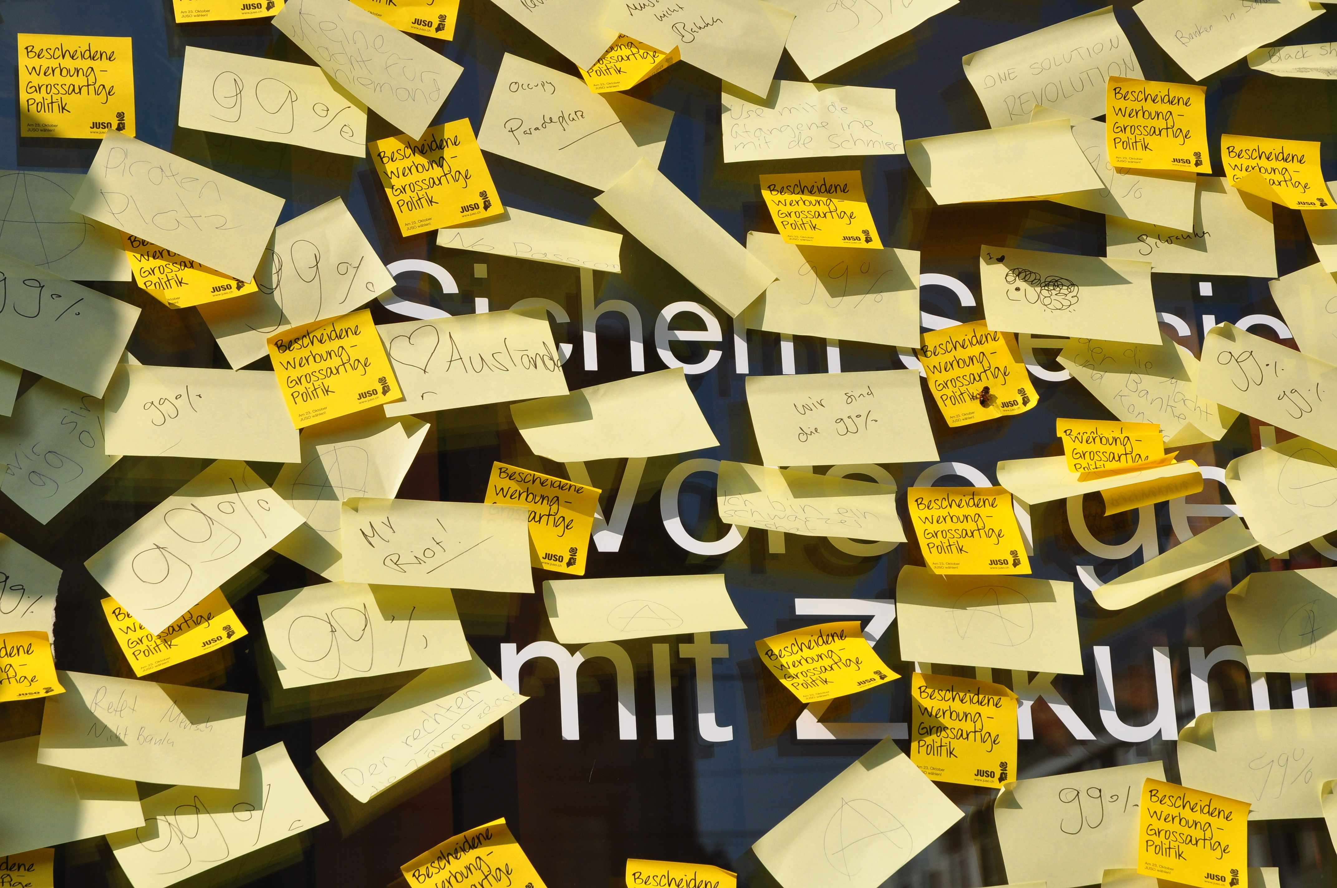 «Occupy» movement at Paradeplatz in Zürich (Switzerland)